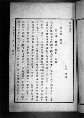 "DaehanChichi - Chorography of Korea"（1899）